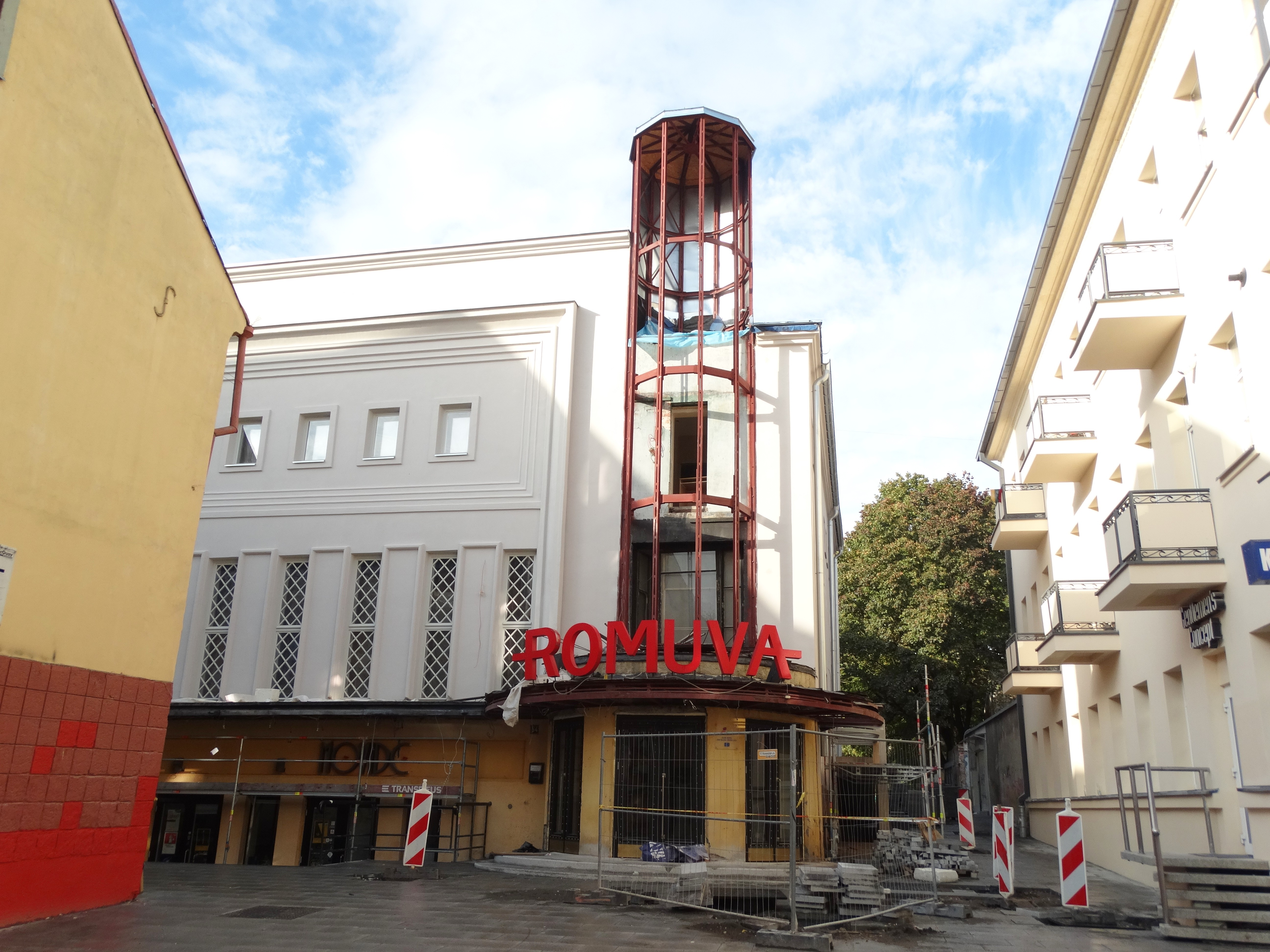 Cinema Romuva, refit, Kaunas, Lithuania